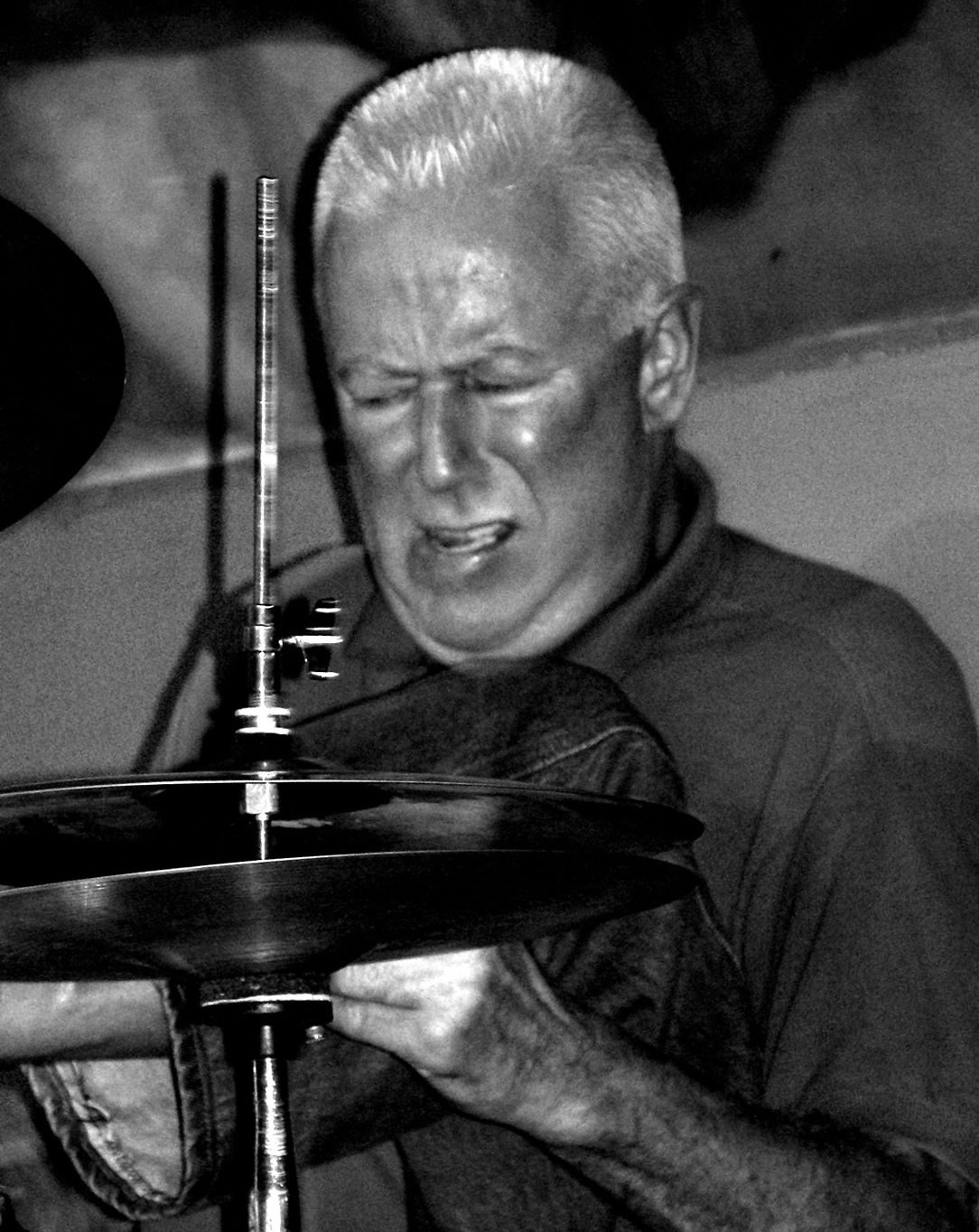 ICP Orchestra